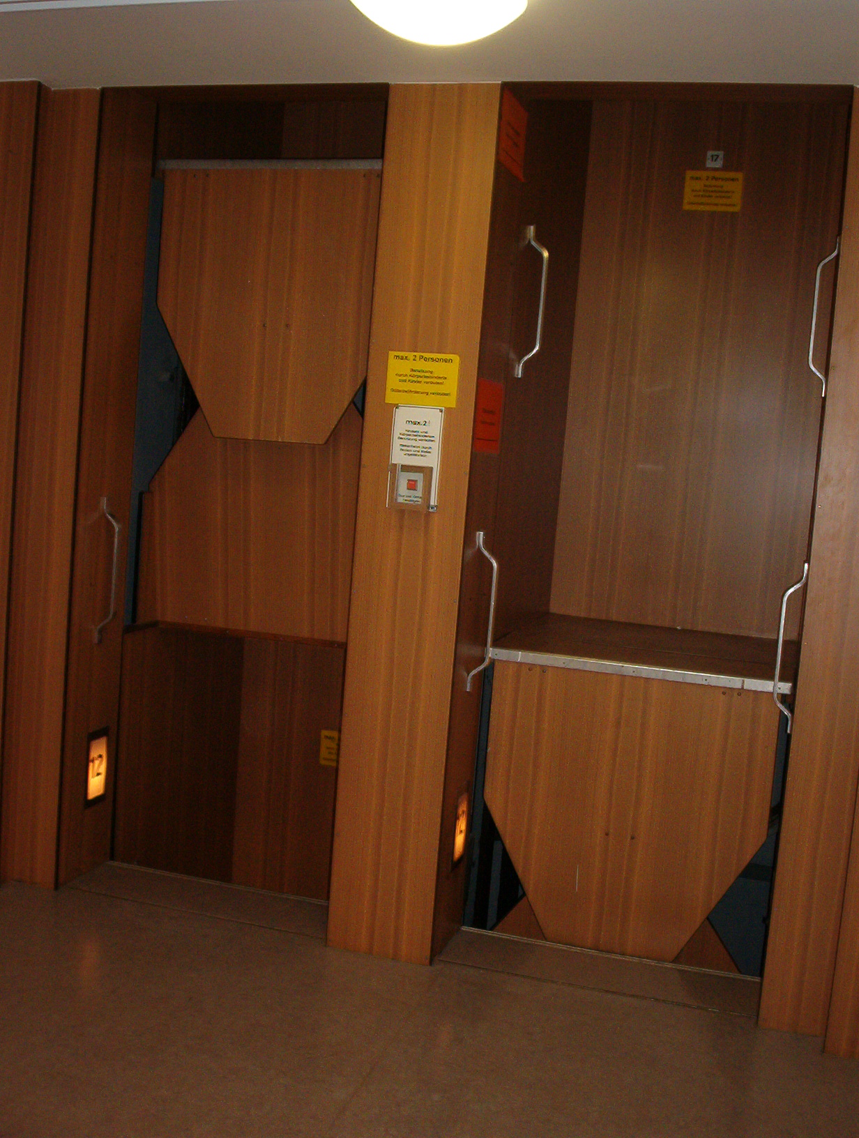 Paternoster elevator at a building belonging to the Normanenstraße campus of the East German Stasi, later used by the Arbeitsamt and in use until 2004. Taken by ProhibitOnions.